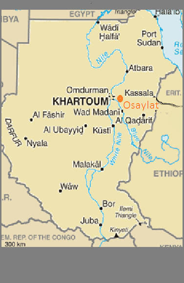 Osaylat area in map of Sudan